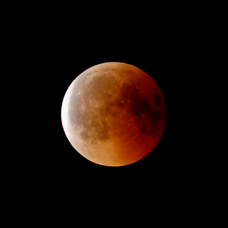 Lunar eclipse of 27 July 2018, end of red moon phase (21:19:23 UTC = 23:19:23 local time UTC+2), Berlin, Germany. The shadow of planet earth with a blue sun ray stripe between the dark red moon surface and the small bright part of the full moon in the left is caused by Earth atmosphere.Crop of